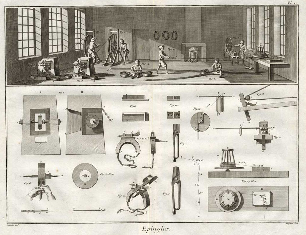 Plate on pin-making, from Diderot's Encyclopédie (1762)